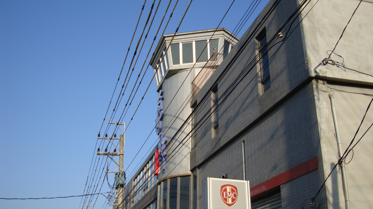 The architectural appearance of the other side of the miracle cafe.